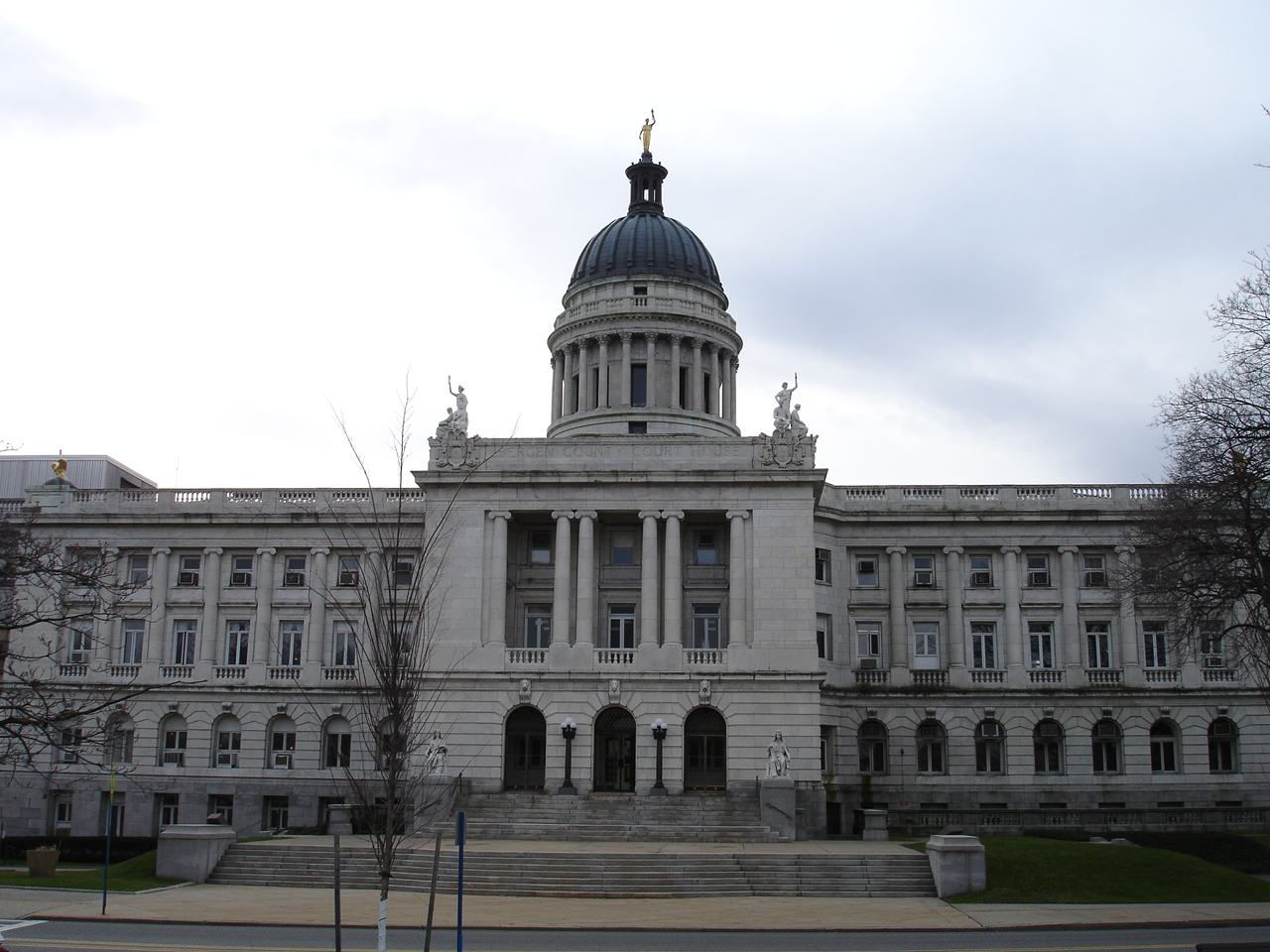 The Bergen County courthouse in Bergen County, New Jersey, USA. I took this photo myself on 1/9/2007.